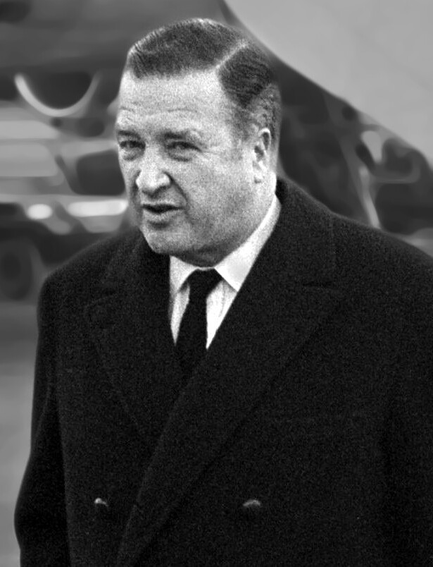 Henry Ford II in the Netherlands